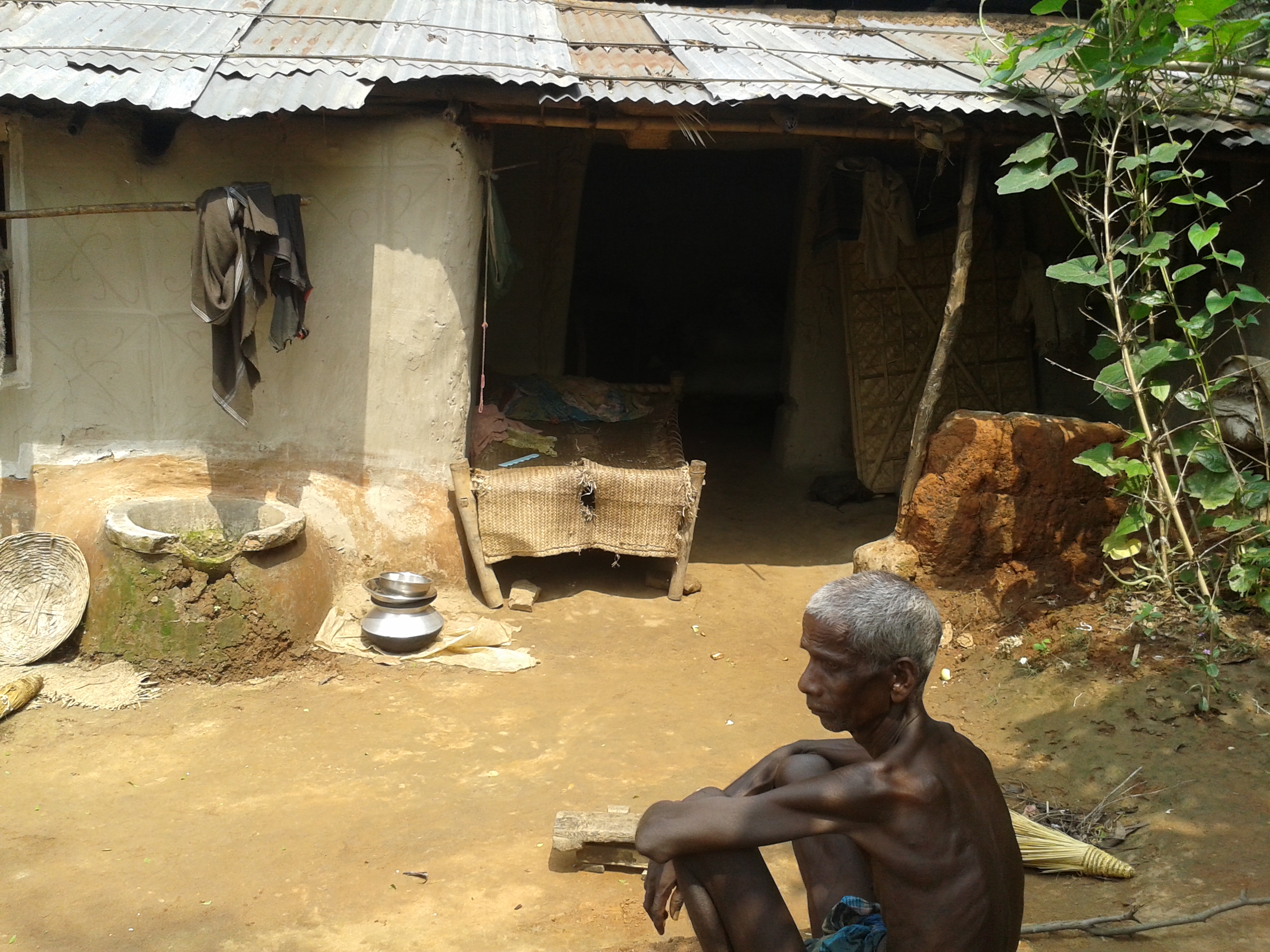 Santal Lifestyle